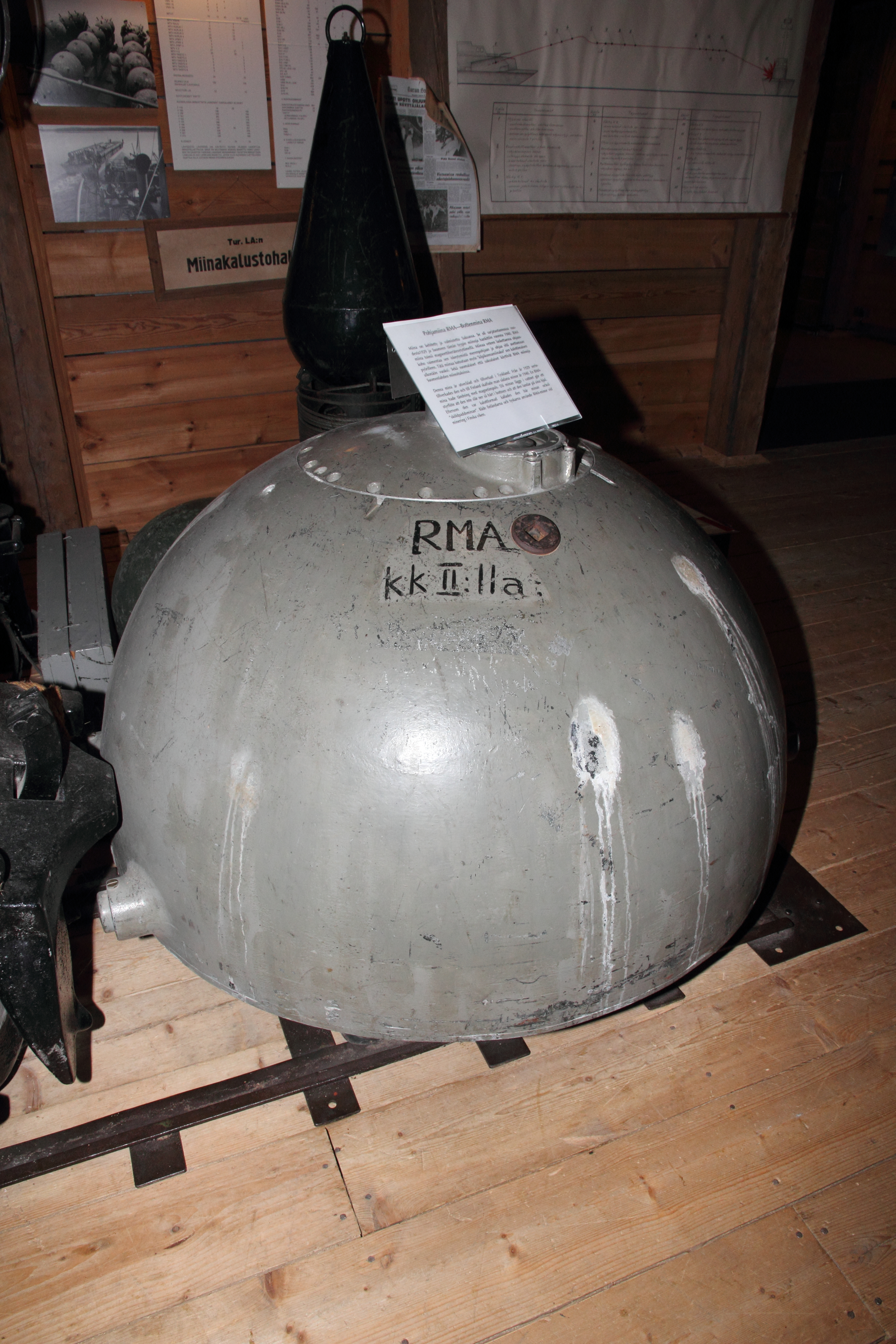 German RMA magnetic bottom mine in Forum Marinum maritime museum.